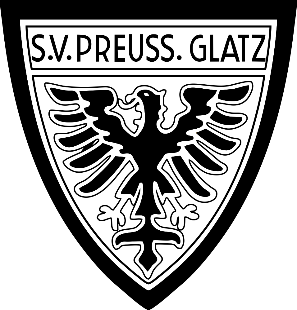 Logo of former german footballclub SV Preußen Glatz (1923-1945)